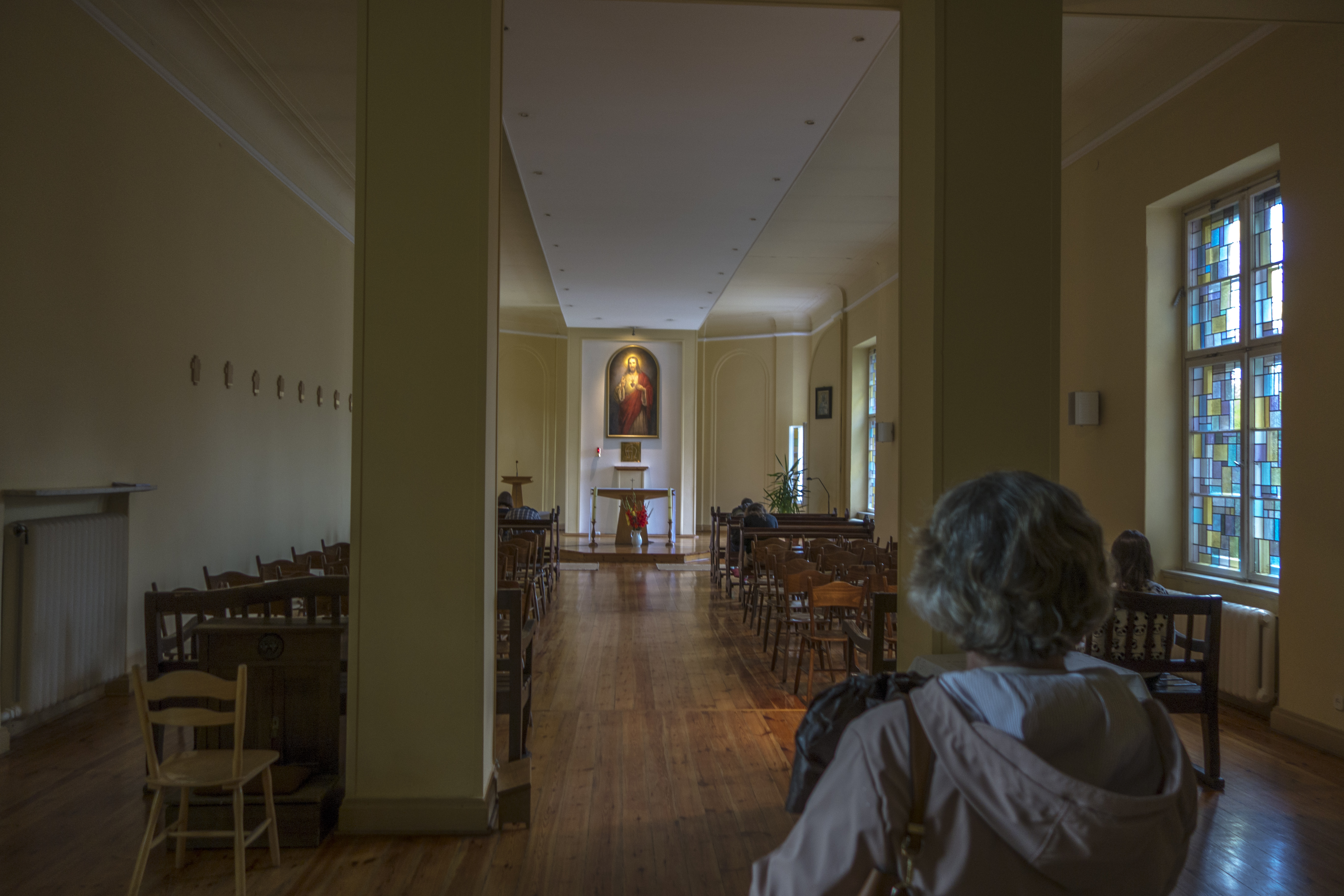 Convent of Society of the Sacred Heart in Pobiedziska (Poland) - the chapel